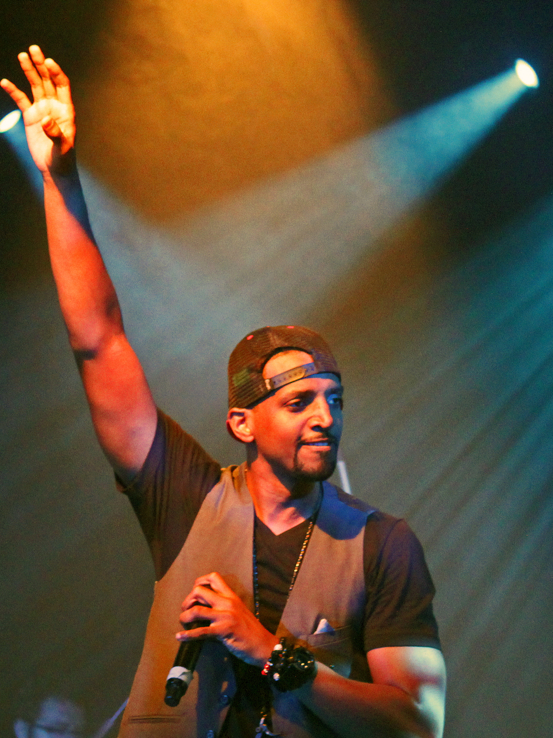 J. Ivy performs live at his "HERE I AM" Book Concert